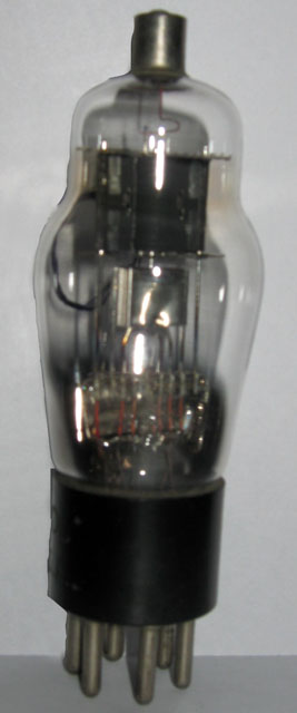 Vacuum tube 75, from 1930s 6 pins UX base, top grid cap.